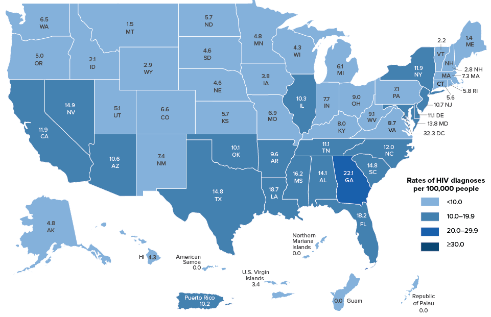 Map infographic displaying rates of HIV Diaginosis in the United States based on 2017 CDC data, published by the CDC in February of 2019.